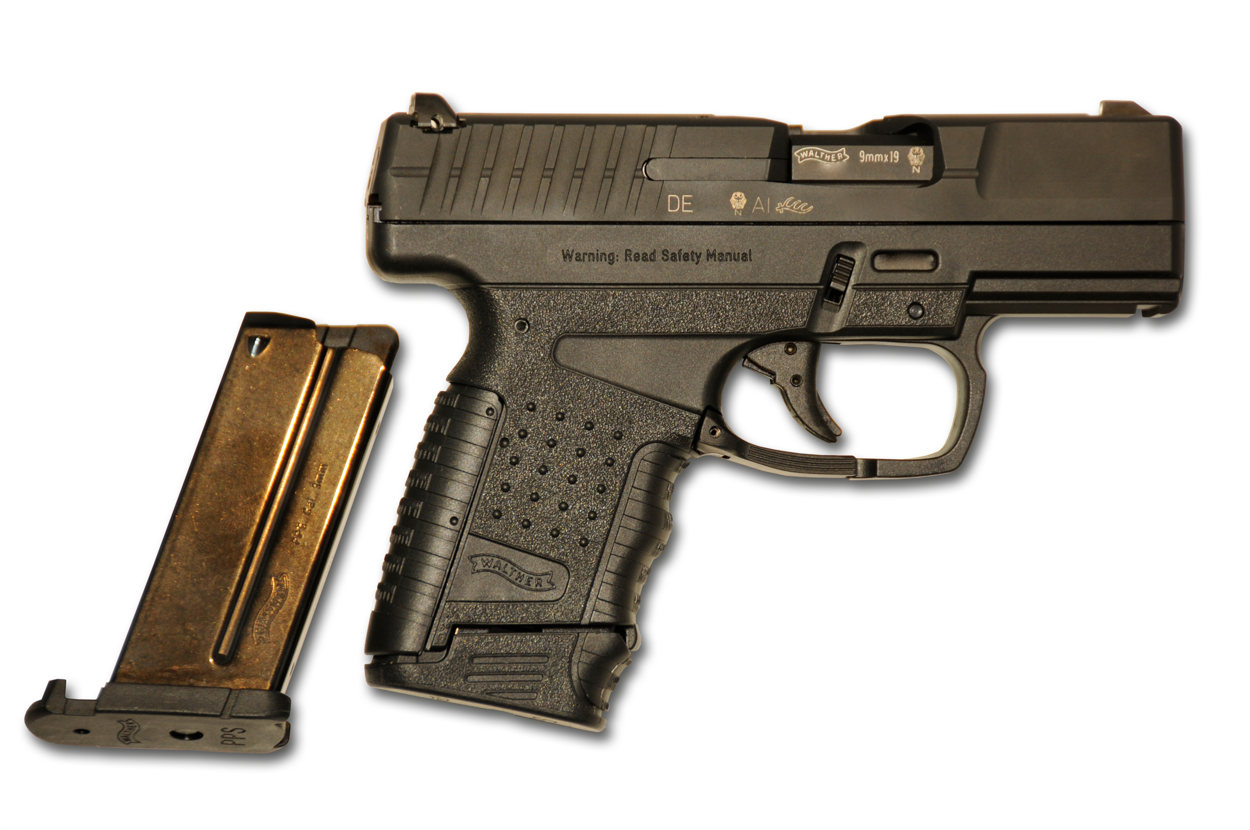 Walther's new sub-compact 9mm, the PPS, with 7 round magazine in and the 6 round mag. on the side. Notice how the 7 round magazine extends the grip and makes it more comfortable to handle.